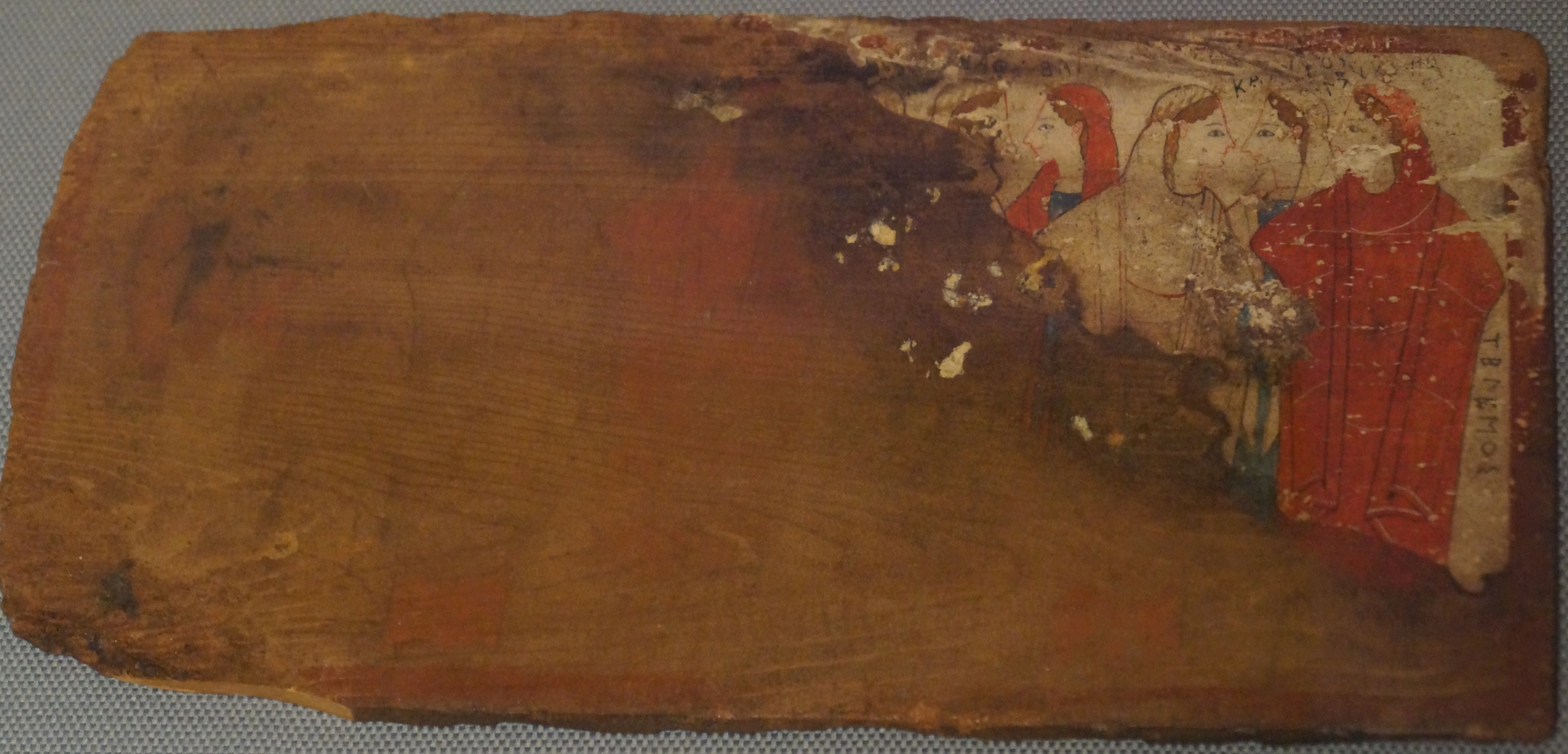 National Archaeological Museum of Athens: Pitsa panel (NAMA 16467)